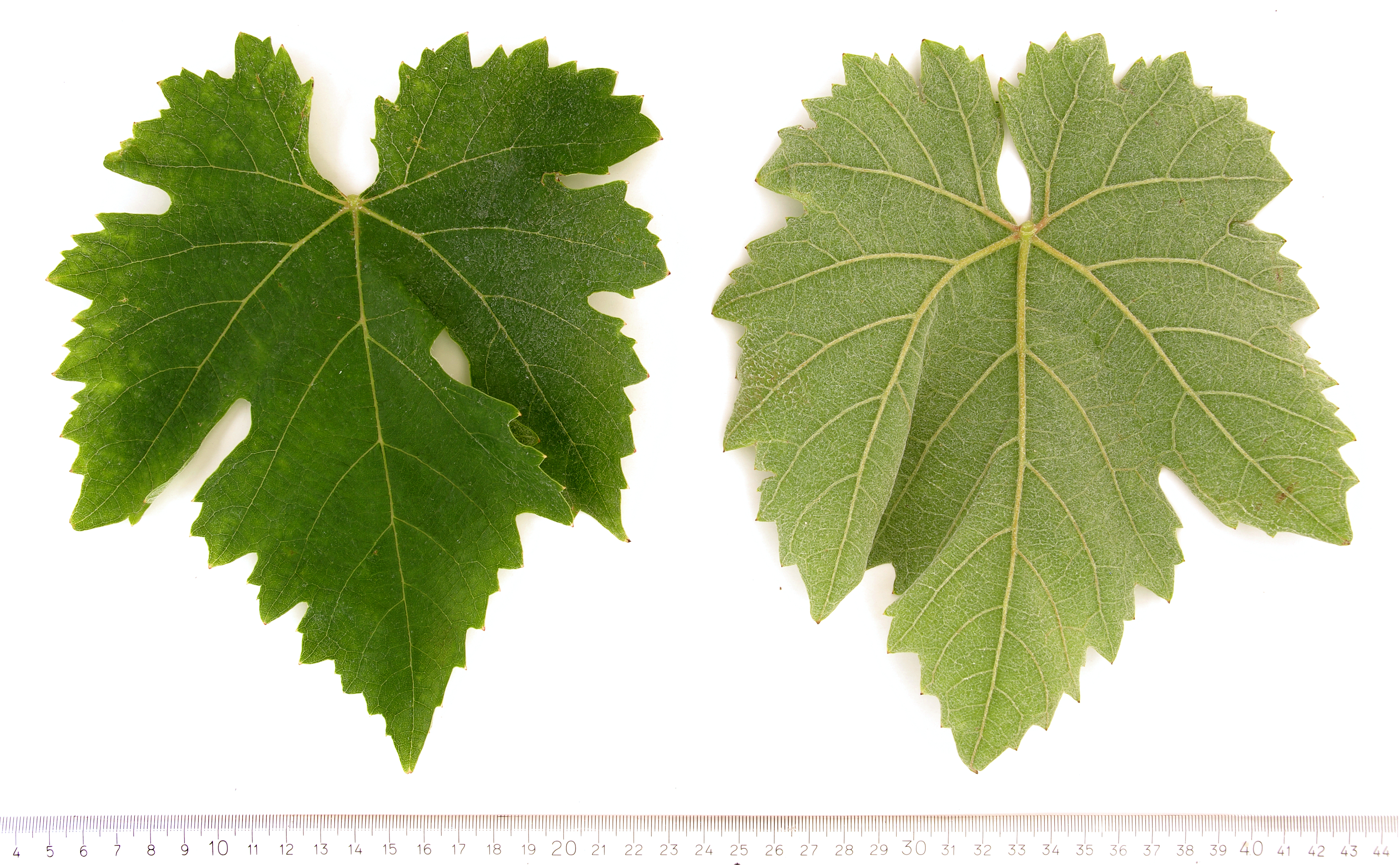 A mature leaf of the Italian grape variety Negroamaro (top and bottom)